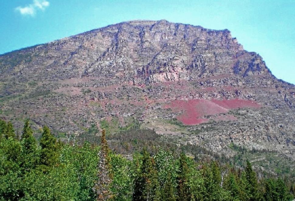 The south aspect of Goat Mountain seen from Sun Point along the Going-to-the-Sun Road.